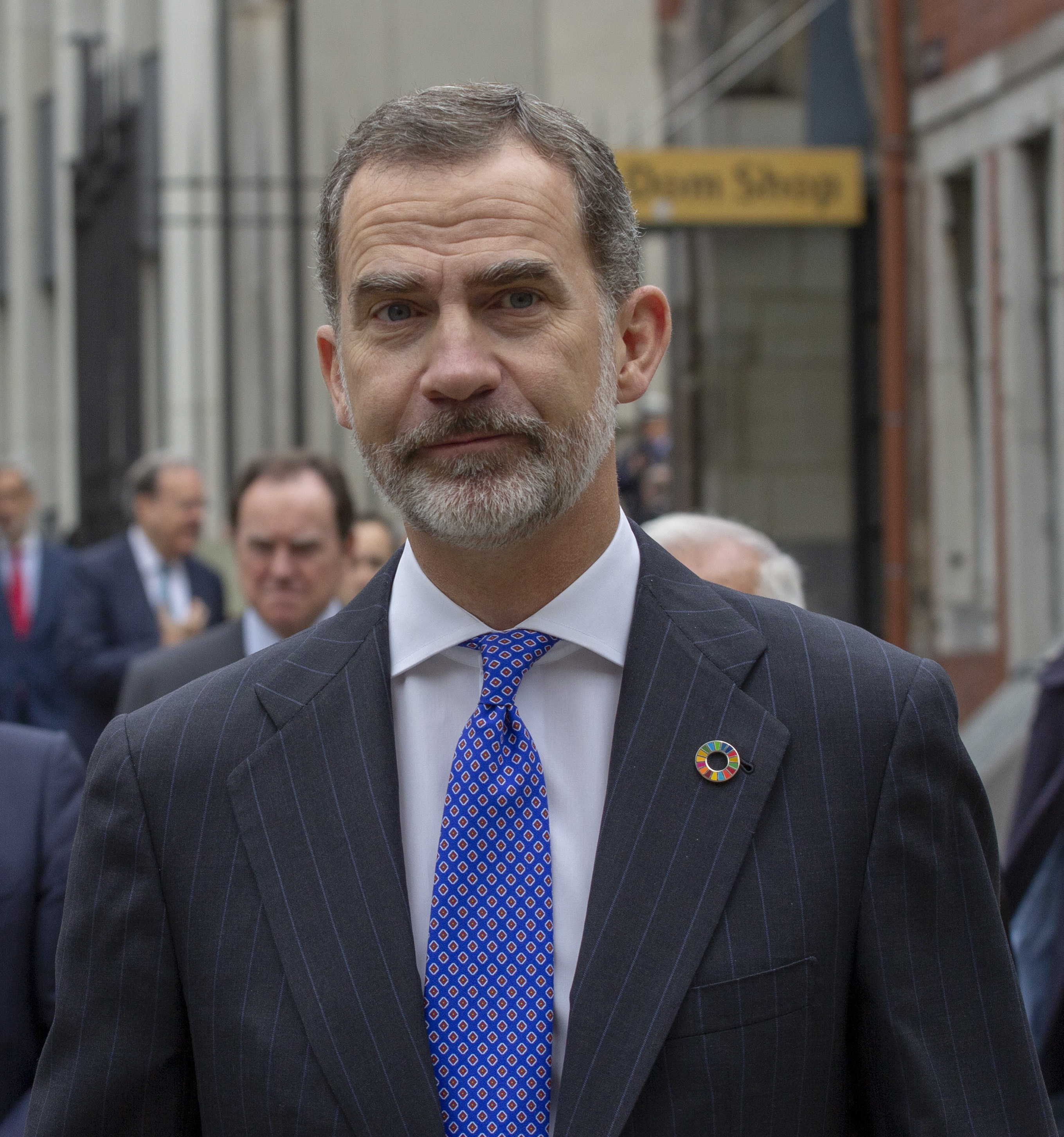 Felipe VI of Spain at the Charlemagne Prize.